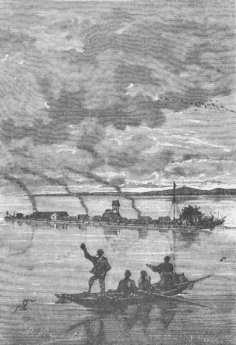 An illustration from Jules Verne's novel "Eight Hundred Leagues on the Amazon".